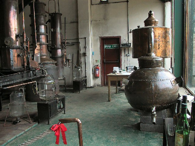 Cider Brandy Still. At Pass Vale Farm, Burrows Hill Somerset